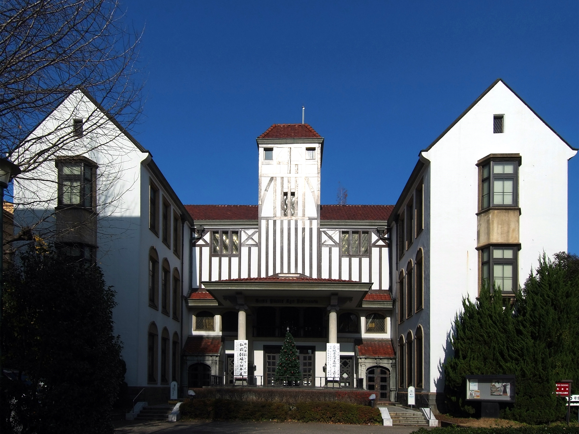 The Tsubouchi Memorial Theatre Museum at Waseda University, Tokyo, Japan, designed by Kenji Imai in 1928.